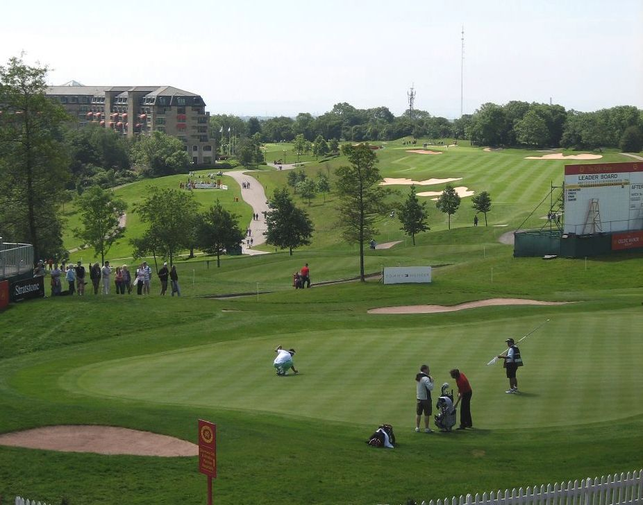 Celtic Manor Resort. The view from the clubhouse - or Lodge - of the Celtic Manor Resort with the 18th. green in the foreground and the hotel itself in the background.